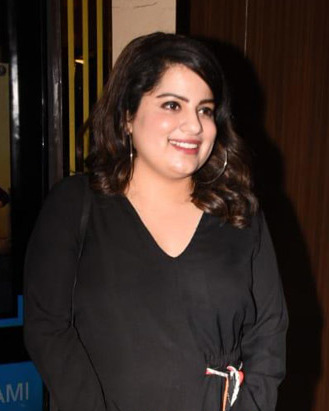 Celebs grace the screening of the series Made in Heaven